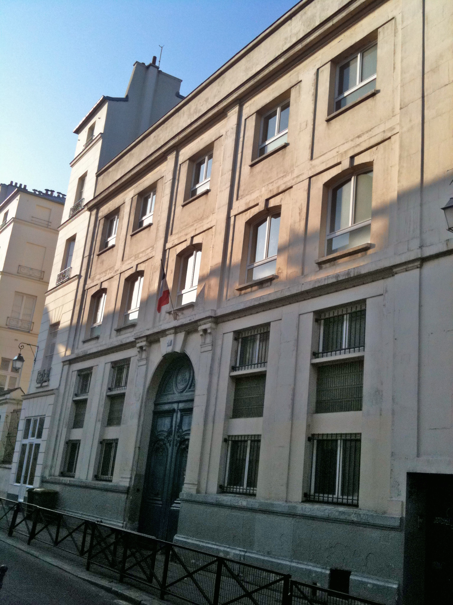 Front view of Barbette's Pavillion of the Lycée Victor-Hugo (Paris)